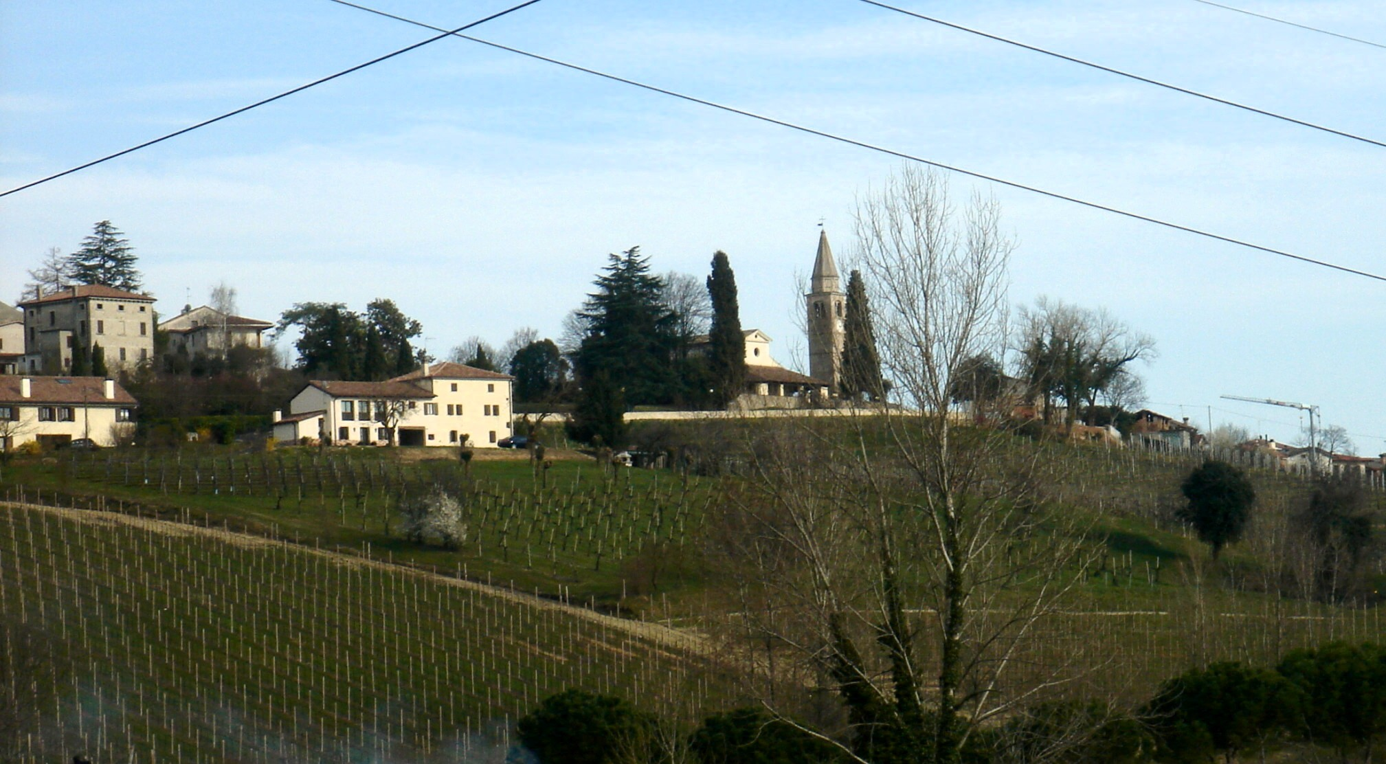 San Pietro di Feletto, panoramic view with the old church